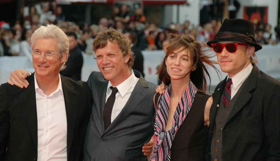 Cast of "I'm not there": Richard Gere, Todd Haynes, Charlotte Gainsbourg and Heath Ledger. Mostra 2007